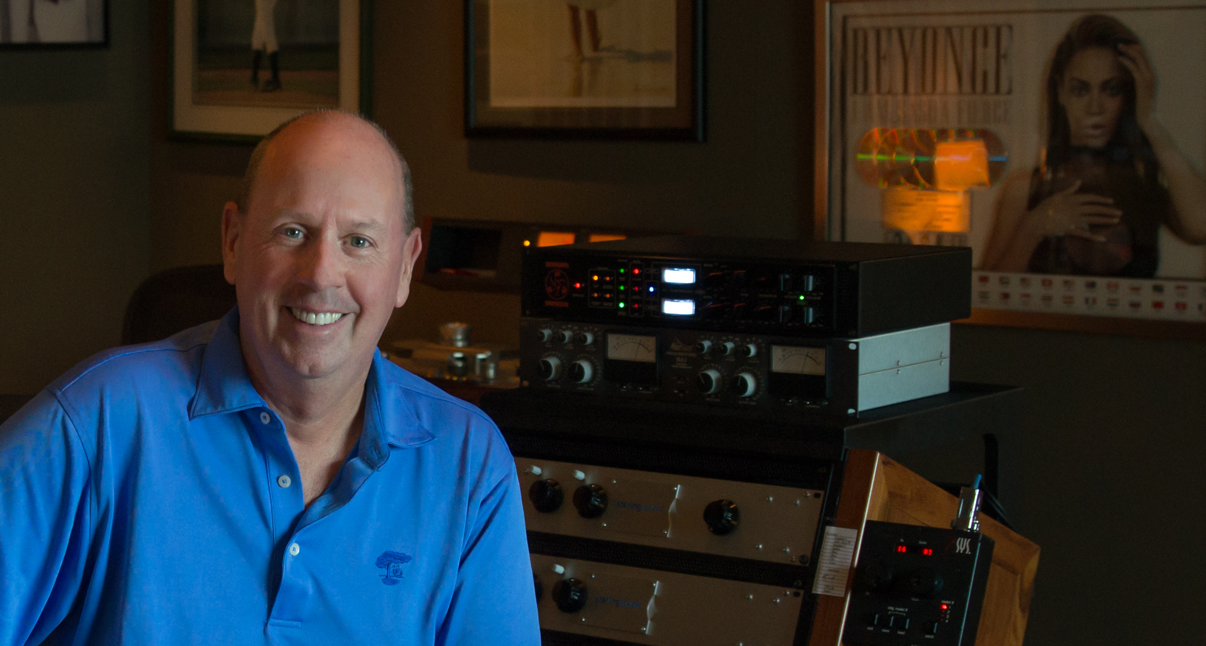 Tom Coyne in his room at Sterling Sound